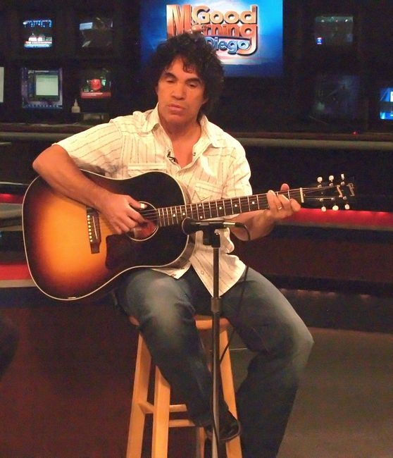 A photo of John Oates while singing in San Diego.